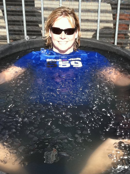 Weightlifter Karyn Marshall taking an ice-bath as part of athletic training in July 2011.